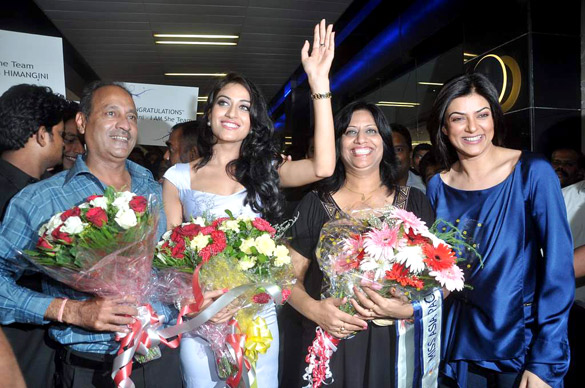 Himangini Singh Yadu with Sushmita Sen returns after winning Miss Asia Pacific World 2012